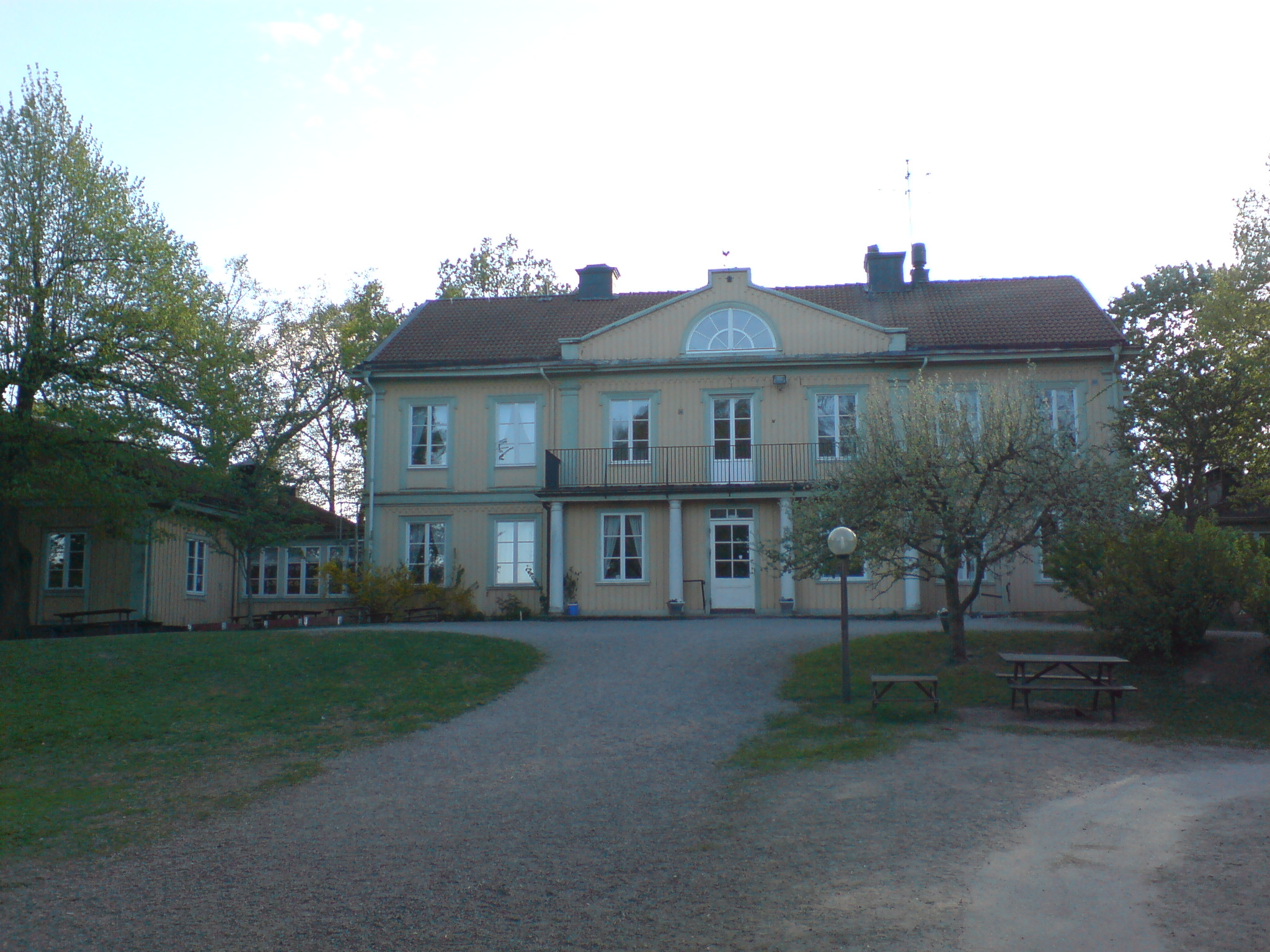 The Nora manor, Danderyd, Sweden.